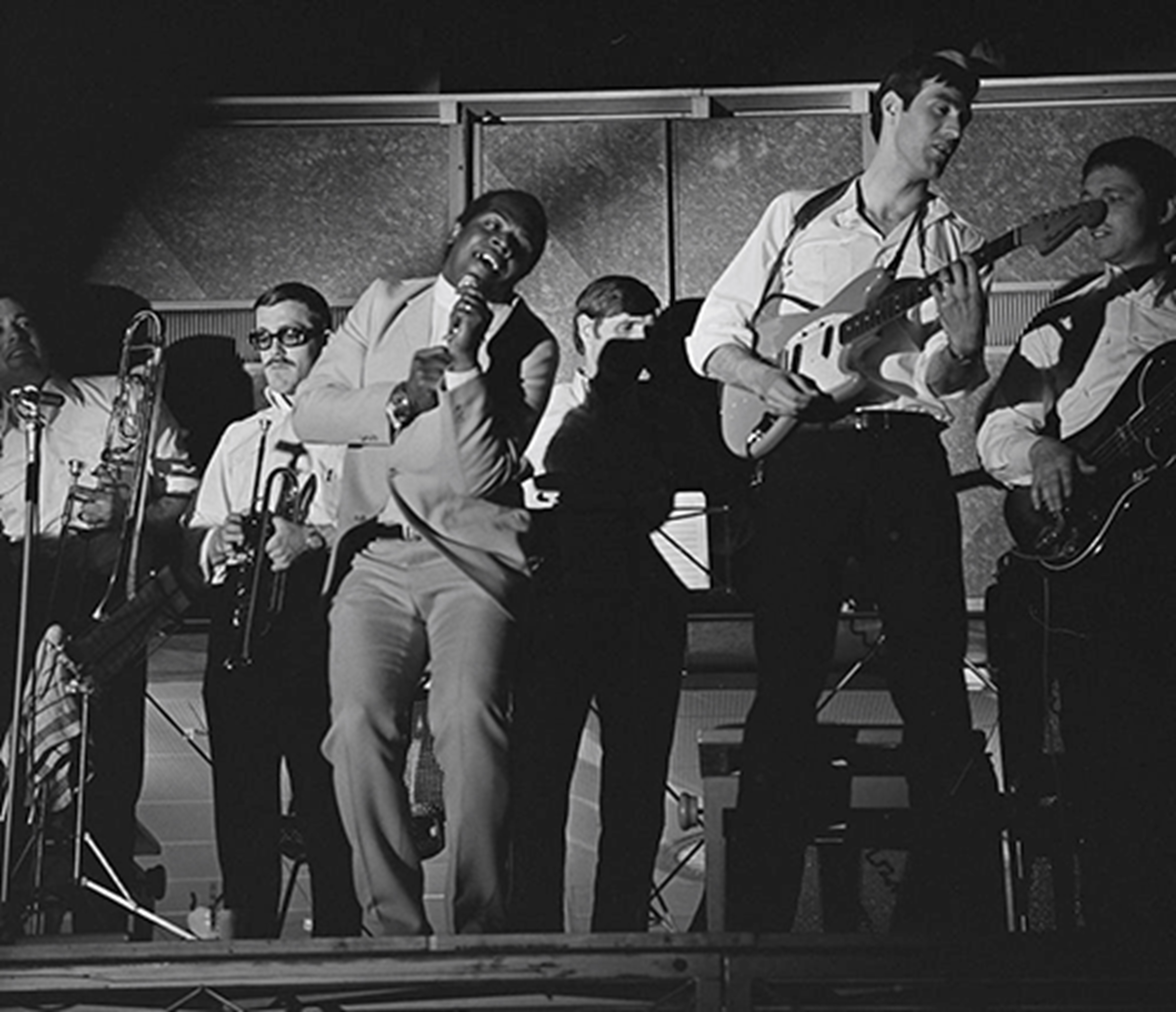 Davy Jones performing in Dutch TV programme Fanclub, 31 May 1968